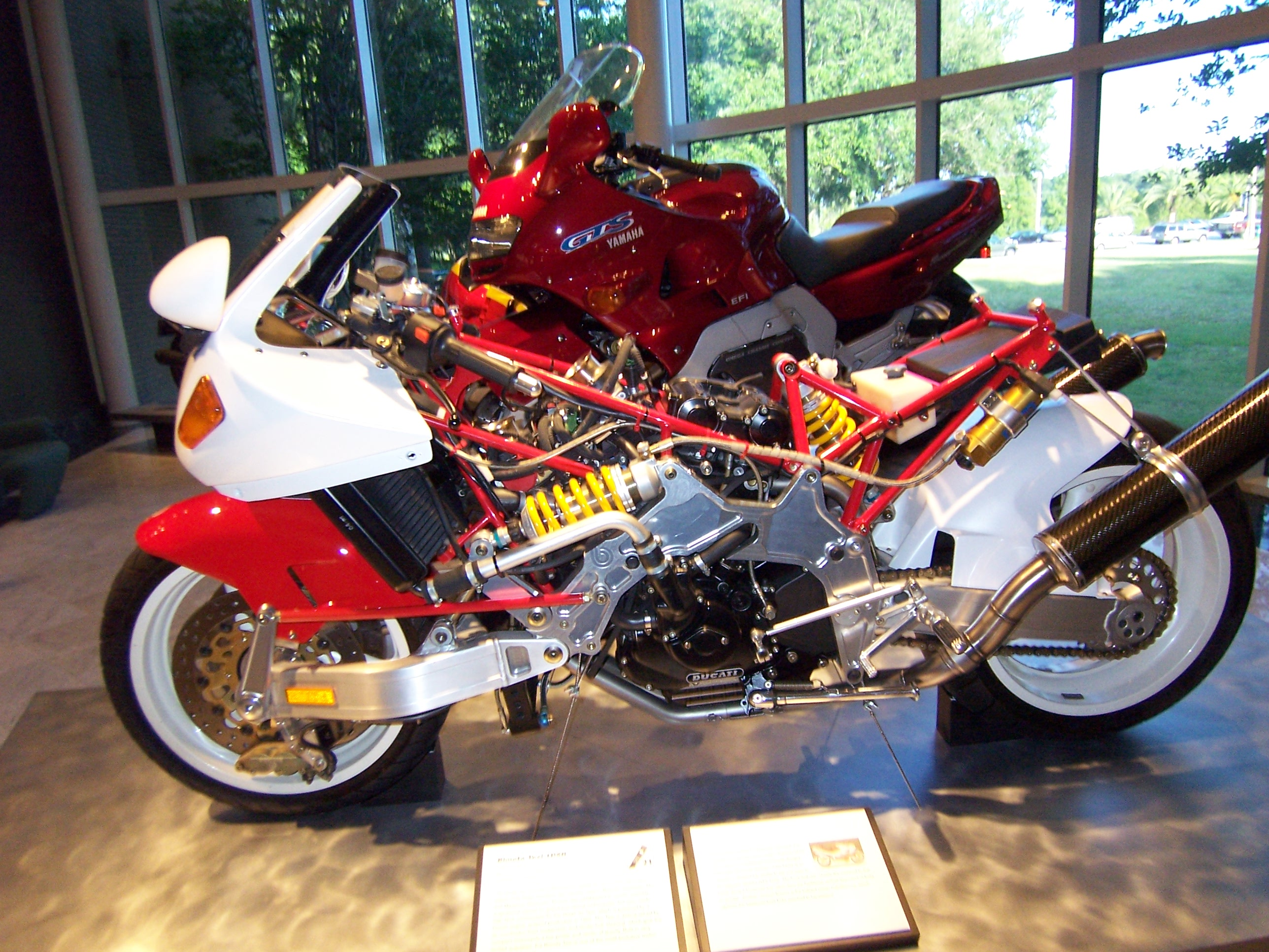 Bimota Tesi 1D naked, with omega frame